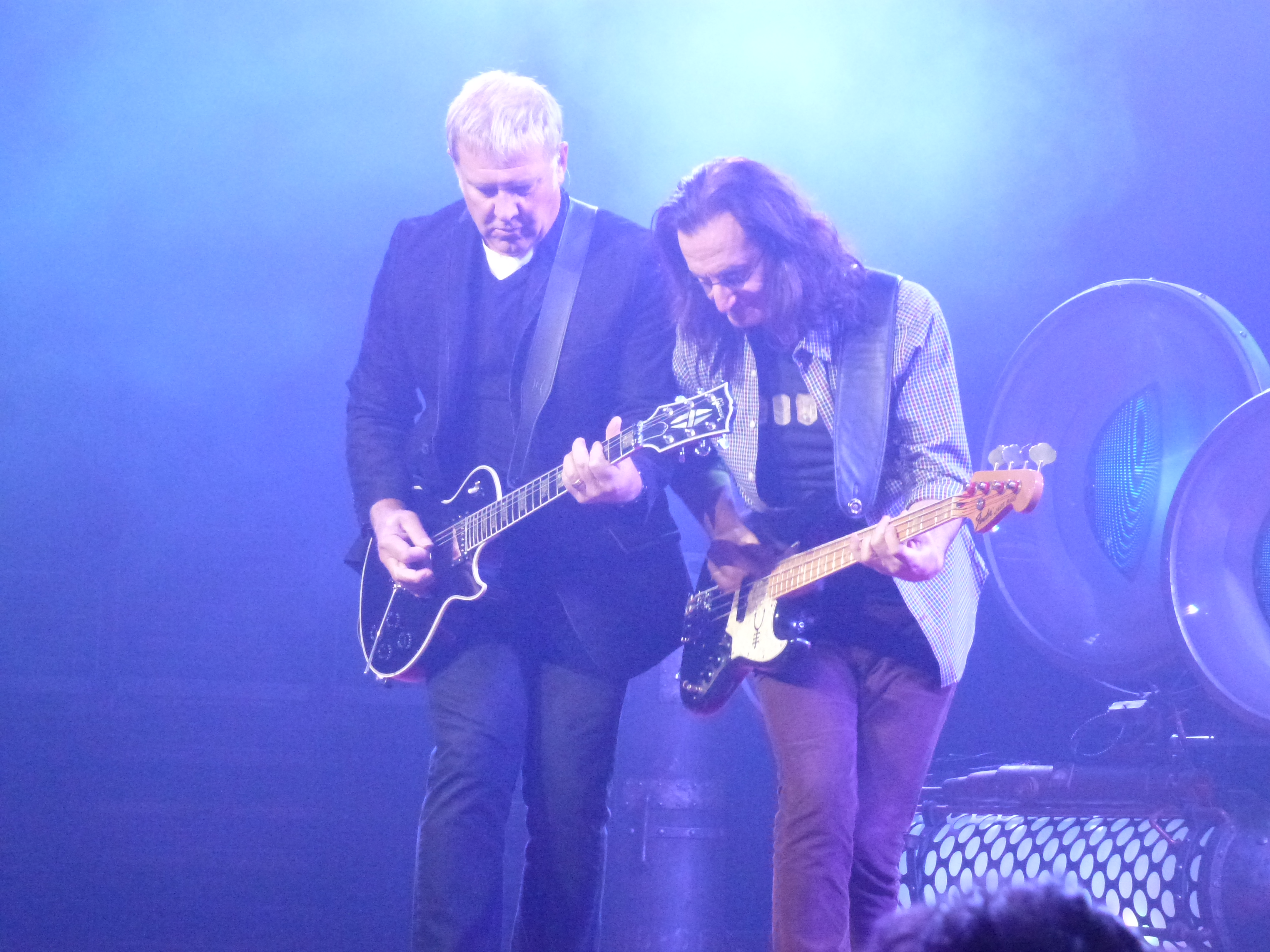 Rush in Philly! 2012